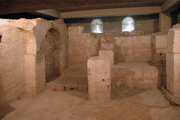 Saint-Guilhem-le-Désert, abbey. Crypt. France